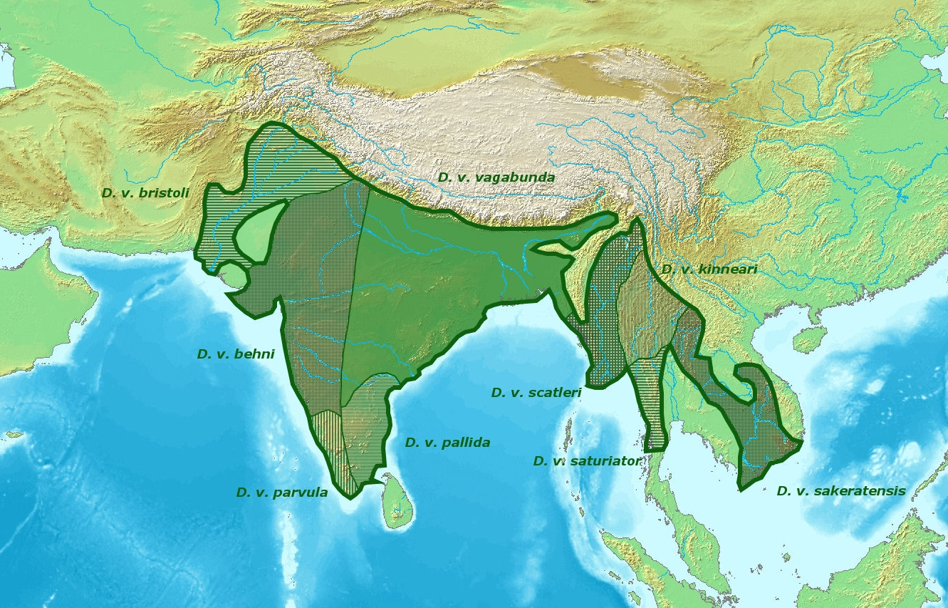 Distribution of the Rufous Treepie (Dendrocitta vagabunda) including subspecies according to Joseph del Hoyo, Andrew Elliot, David Christie (Hrsg.): Handbook of the Birds of the World. Volume 14: Bush-shrikes To Old World Sparrows. Lynx Edicions, Barcelona 2009. ISBN 9788496553507. Salím Ali, S. Dillon Ripley: Handbook of the Birds of India and Pakistan. Volume 5: Larks to the Grey Hypocolius. Oxford University Press, London 1972.